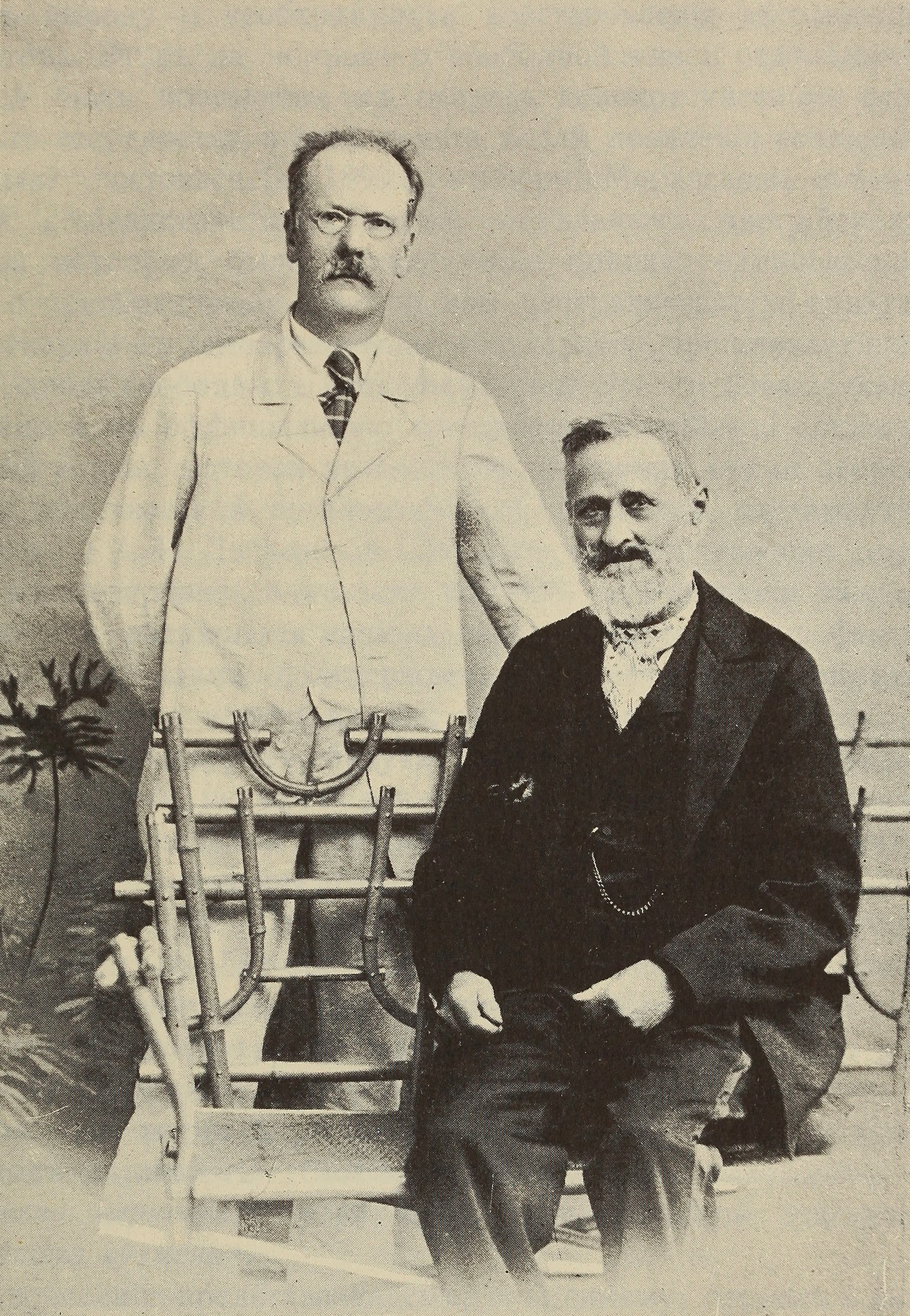 Adolf Dobryansky (sitting) and Anton Budilovuch. Innsbruck, 1898.